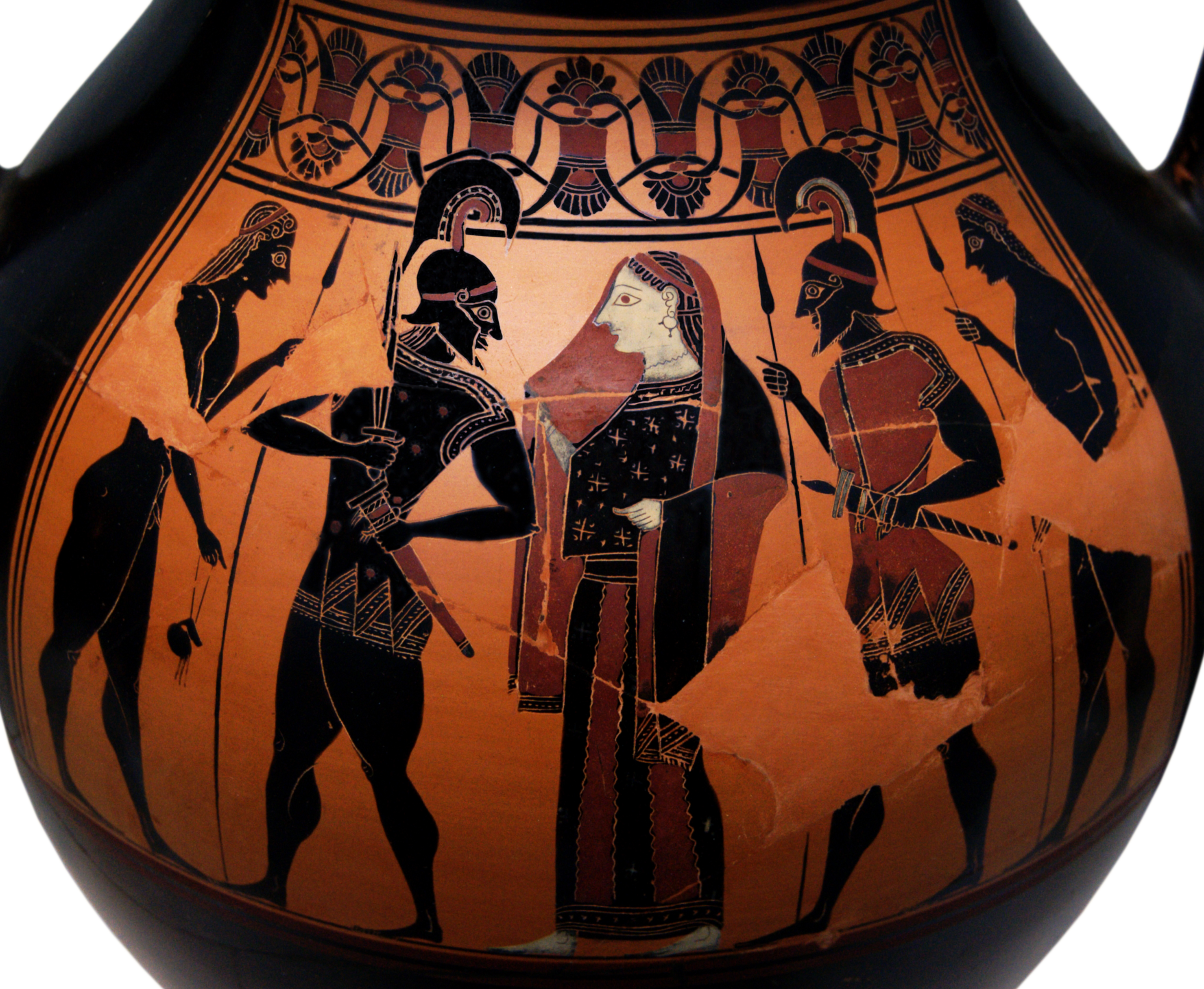 Recovery of Helen by Menelaus. Side B of an Attic black-figure amphora, ca. 550 BCE. From Vulci. The original image was photographed and uploaded by User:Bibi Saint-Pol, own work, 2007-02-13 This version of the image has been slightly cropped, the glare has been digitally reduced and the background changed to solid white.